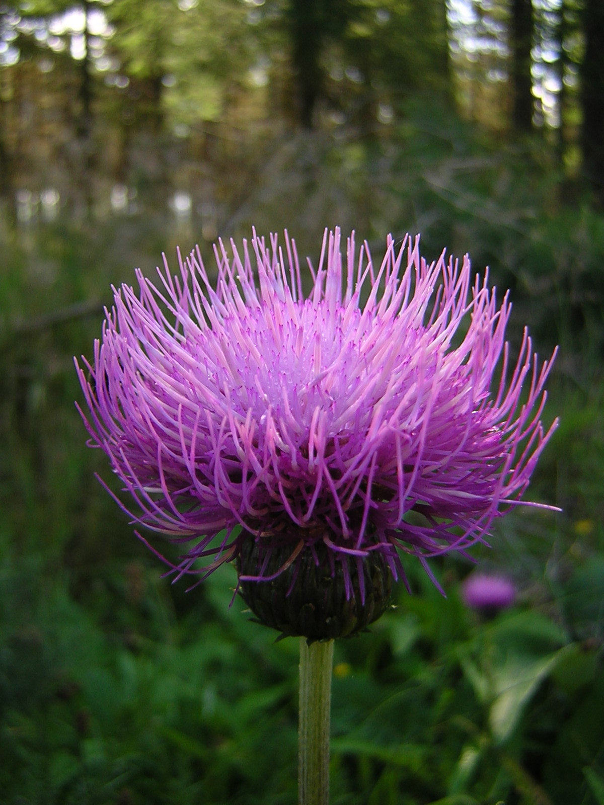 Cirsium heterophyllum : flower